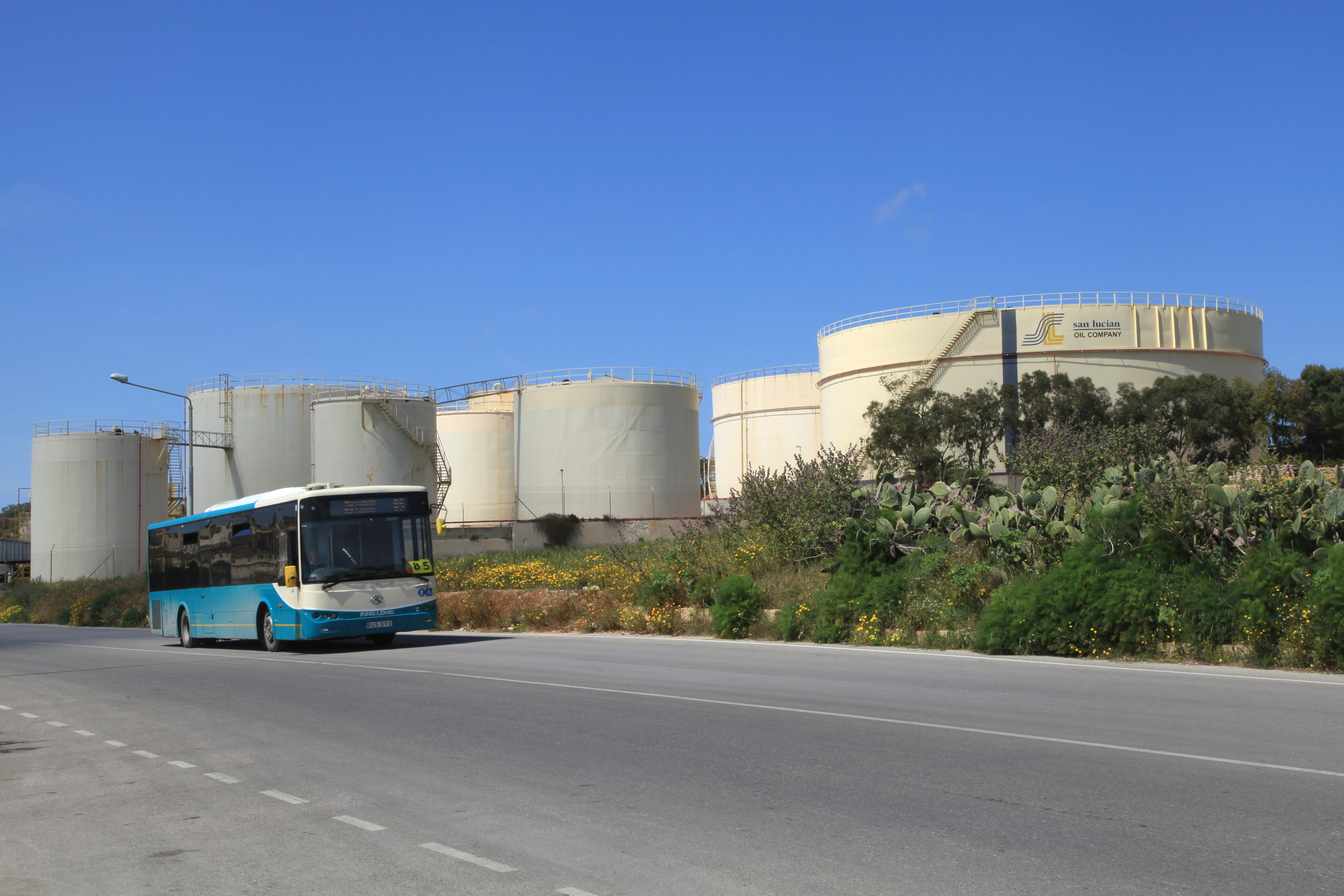 San Lucian Oil Company at Triq il-Qajjenza in Birżebbuġa